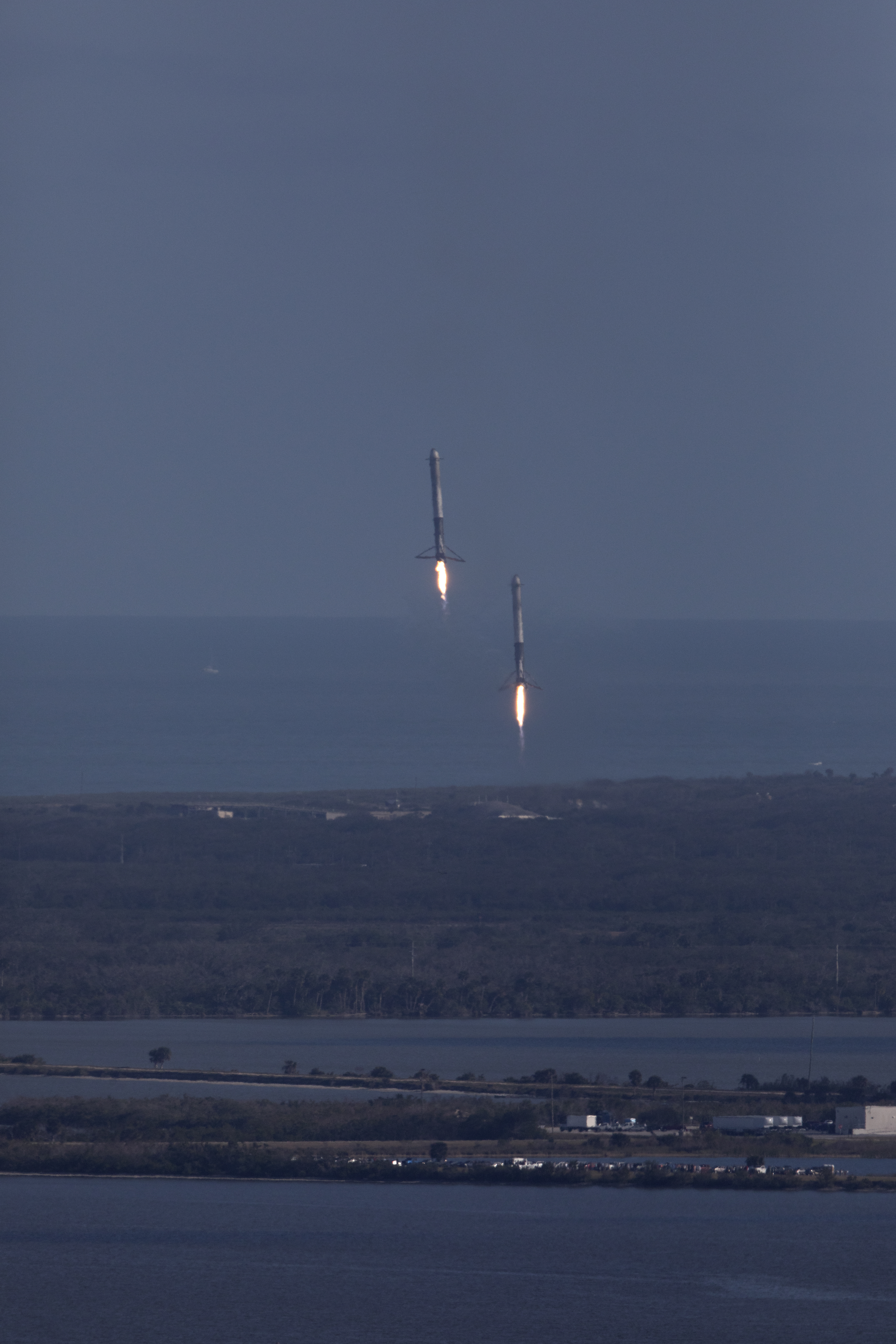 The SpaceX Falcon Heavy rocket’s two side cores descend toward landing at Cape Canaveral Air Force Station in Florida following a successful liftoff at 3:45 p.m. EST from Launch Complex 39A at NASA's Kennedy Space Center. This demonstration flight is a significant milestone for the world's premier multi-user spaceport. In 2014, NASA signed a property agreement with SpaceX for the use and operation of the center's pad 39A, where the company has launched Falcon 9 rockets and prepared for the first Falcon Heavy. NASA also has Space Act Agreements in place with partners, such as SpaceX, to provide services needed to process and launch rockets and spacecraft.